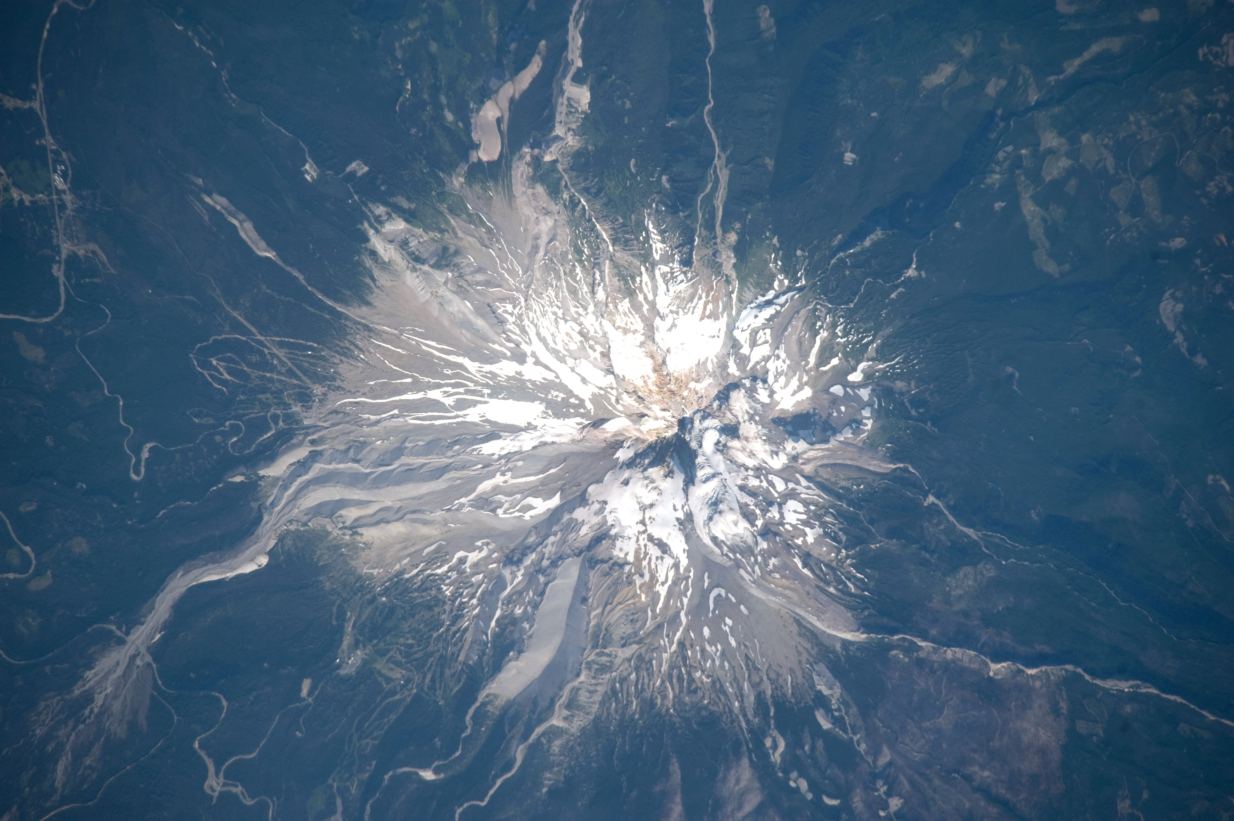 Gray volcanic deposits extend southwards along the banks of the White River (image lower left) and form several prominent ridges along the south-east to south-west flanks of the volcano. The deposits contrast sharply with the green vegetation on the lower flanks of the volcano. North is to the right. Image acquired with a Nikon D3 digital camera fitted with an 800 mm lens, and is provided by the ISS Crew Earth Observations experiment and Image Science & Analysis Laboratory, Johnson Space Centre. Instrument: ISS - Digital Camera.